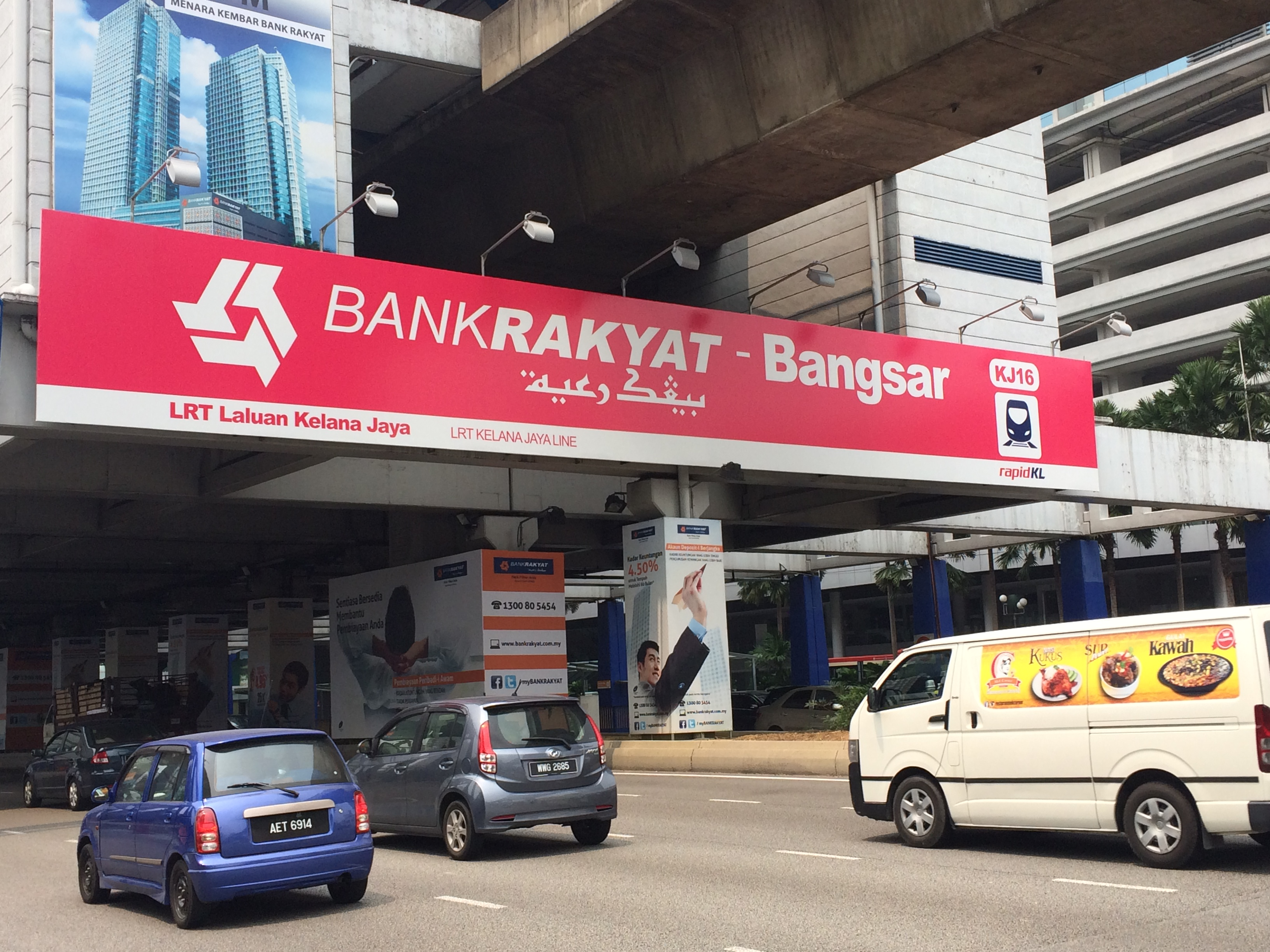 BankRakyat - Bangsar